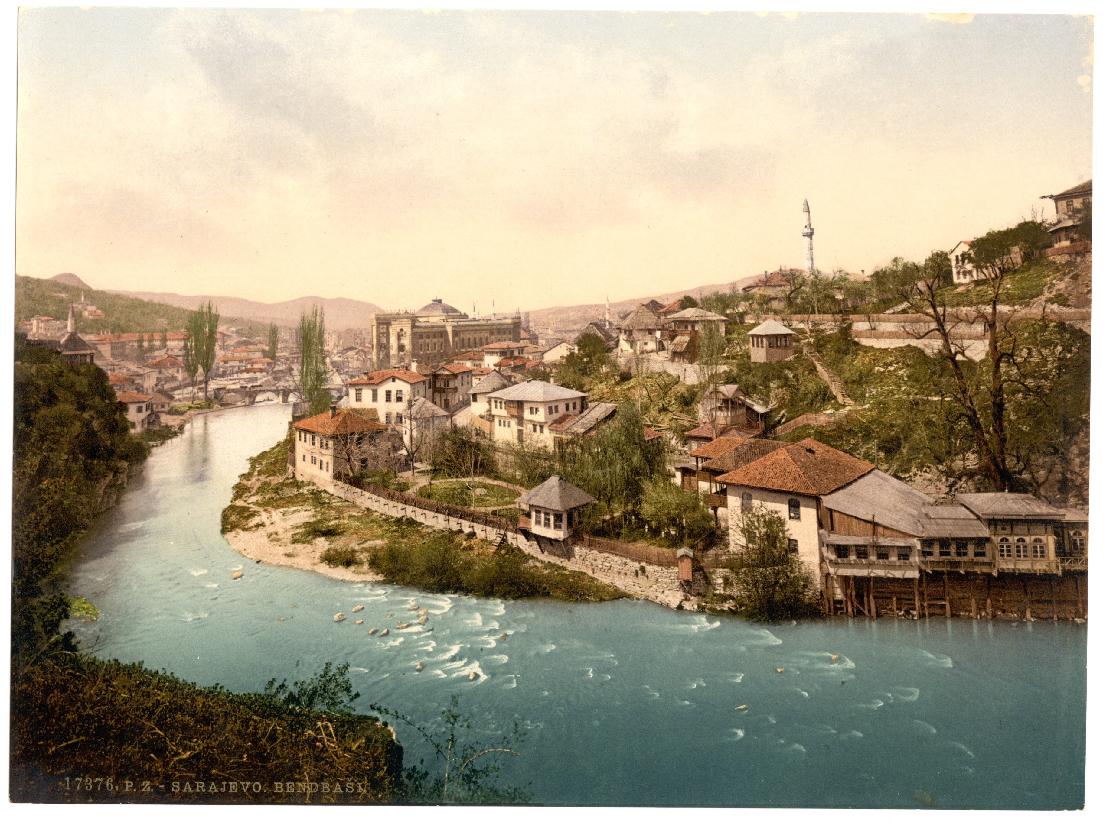 Print no. "17376".; Forms part of: Views of the Austro-Hungarian Empire in the Photochrom print collection.; Title from the Detroit Publishing Co., Catalogue J-foreign section, Detroit, Mich. : Detroit Publishing Company, 1905.